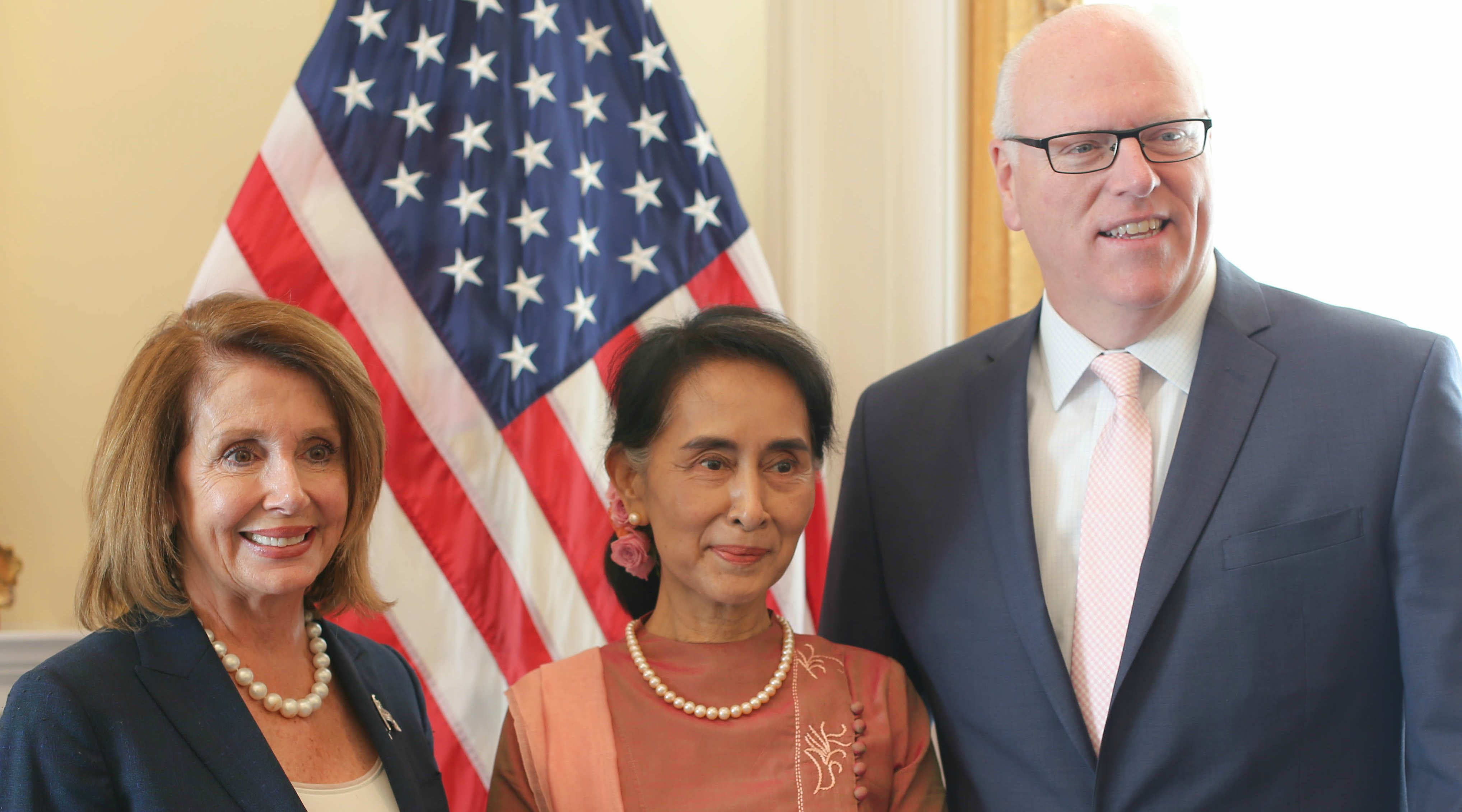 A true honor to welcome Burma's Aung San Suu Kyi who is known the world over for her steadfast devotion to progress.